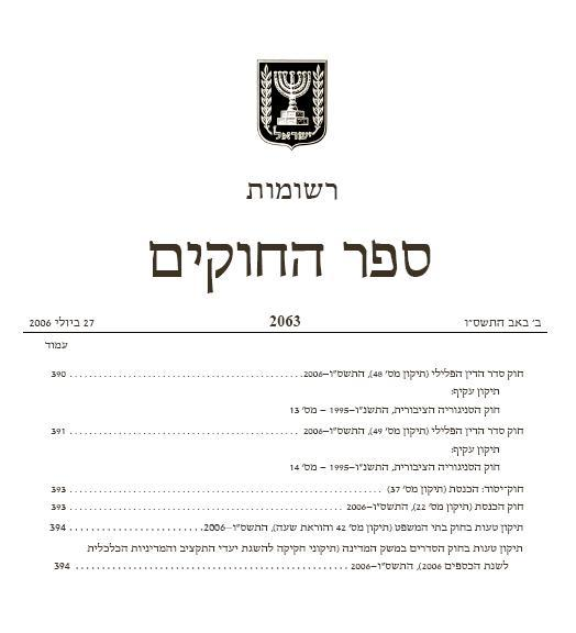 A cover of Reshumot (Israel State Records), the official gazette of laws.